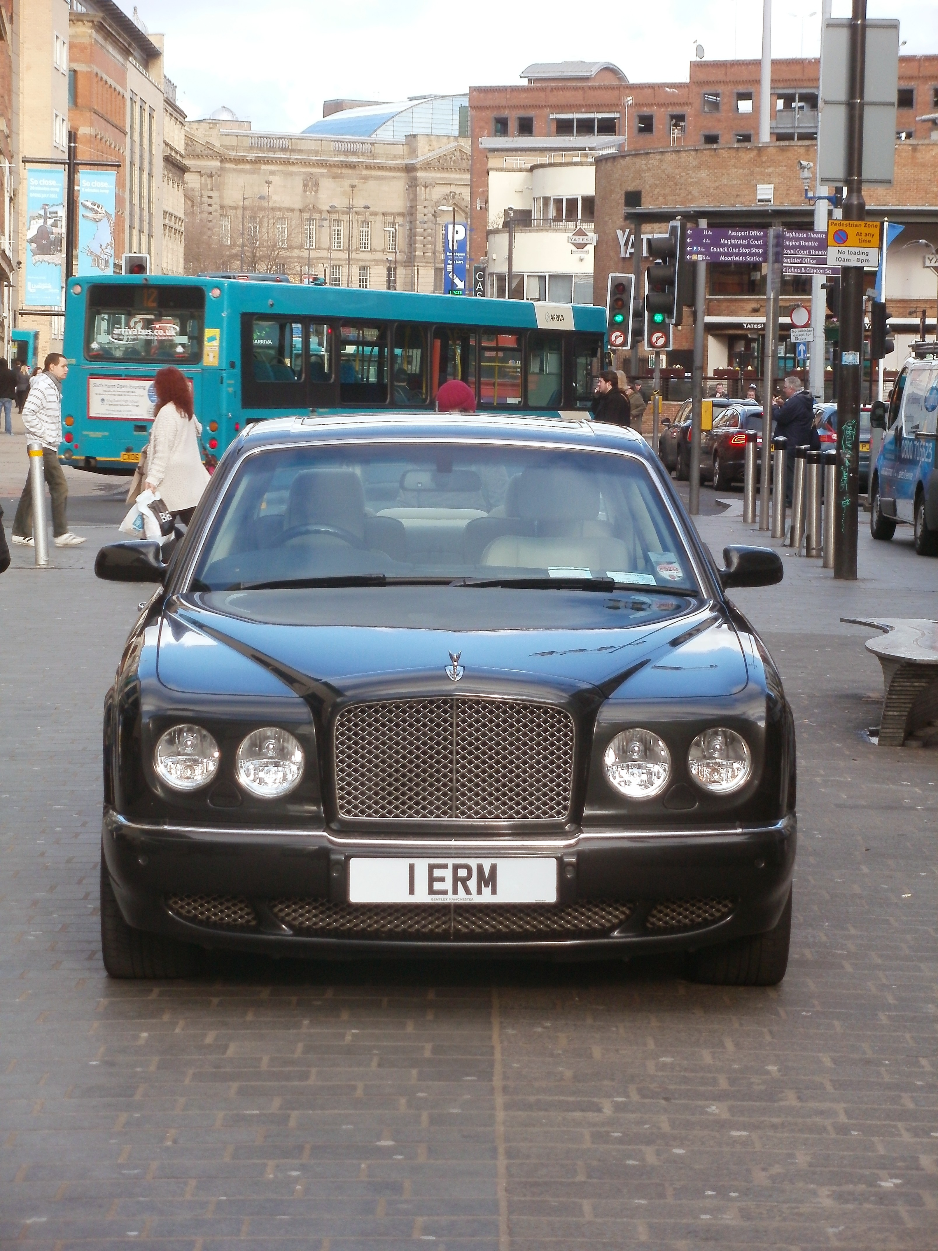 Rex Makins Bentley 05 February 2014. Outside his office.